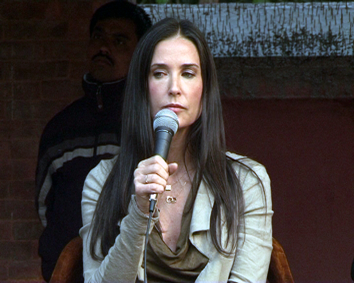 Demi Moore during the visit to Nepal in 2011